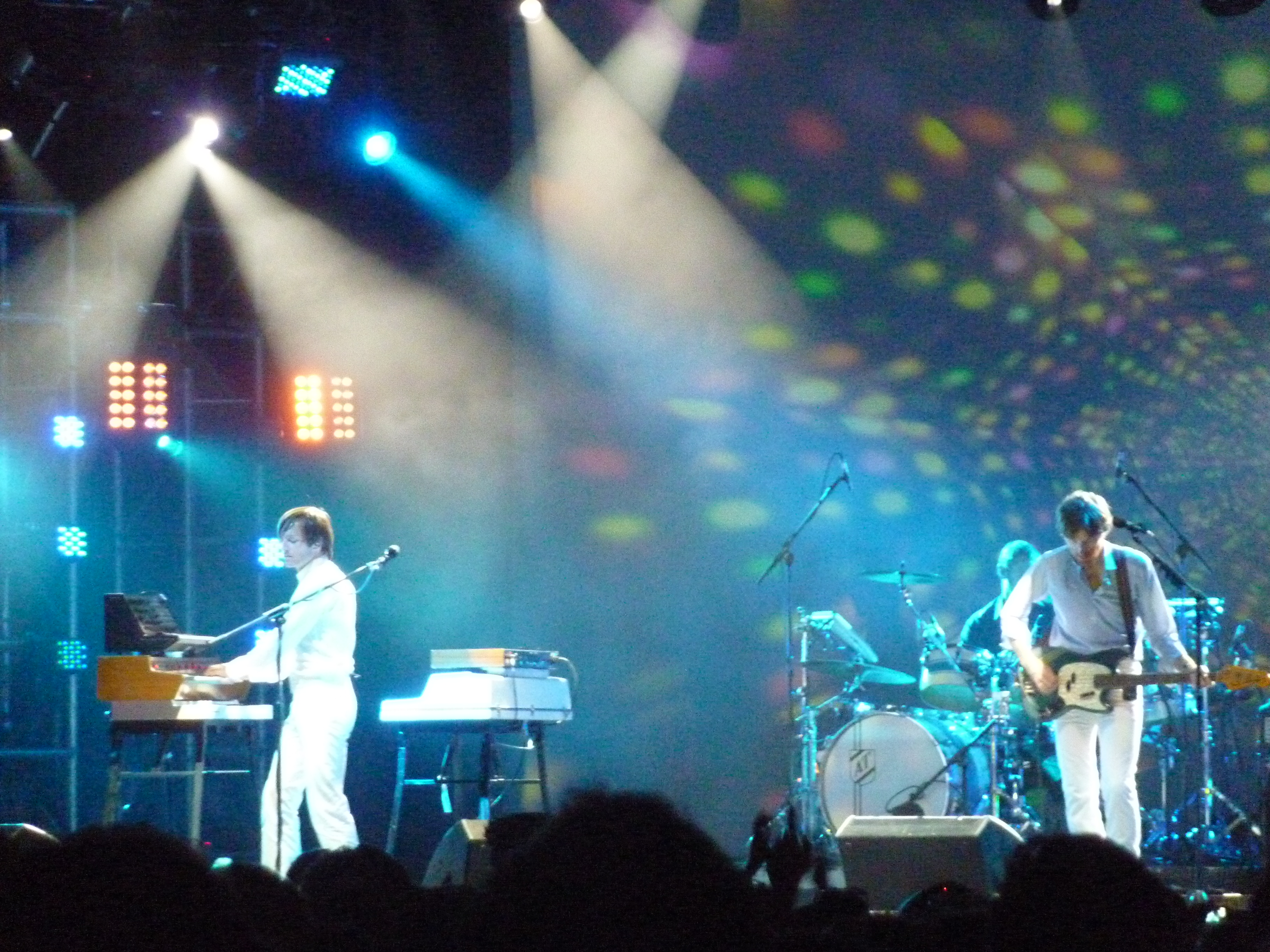 Air performing in 2010 in Strand, London, England in 2010